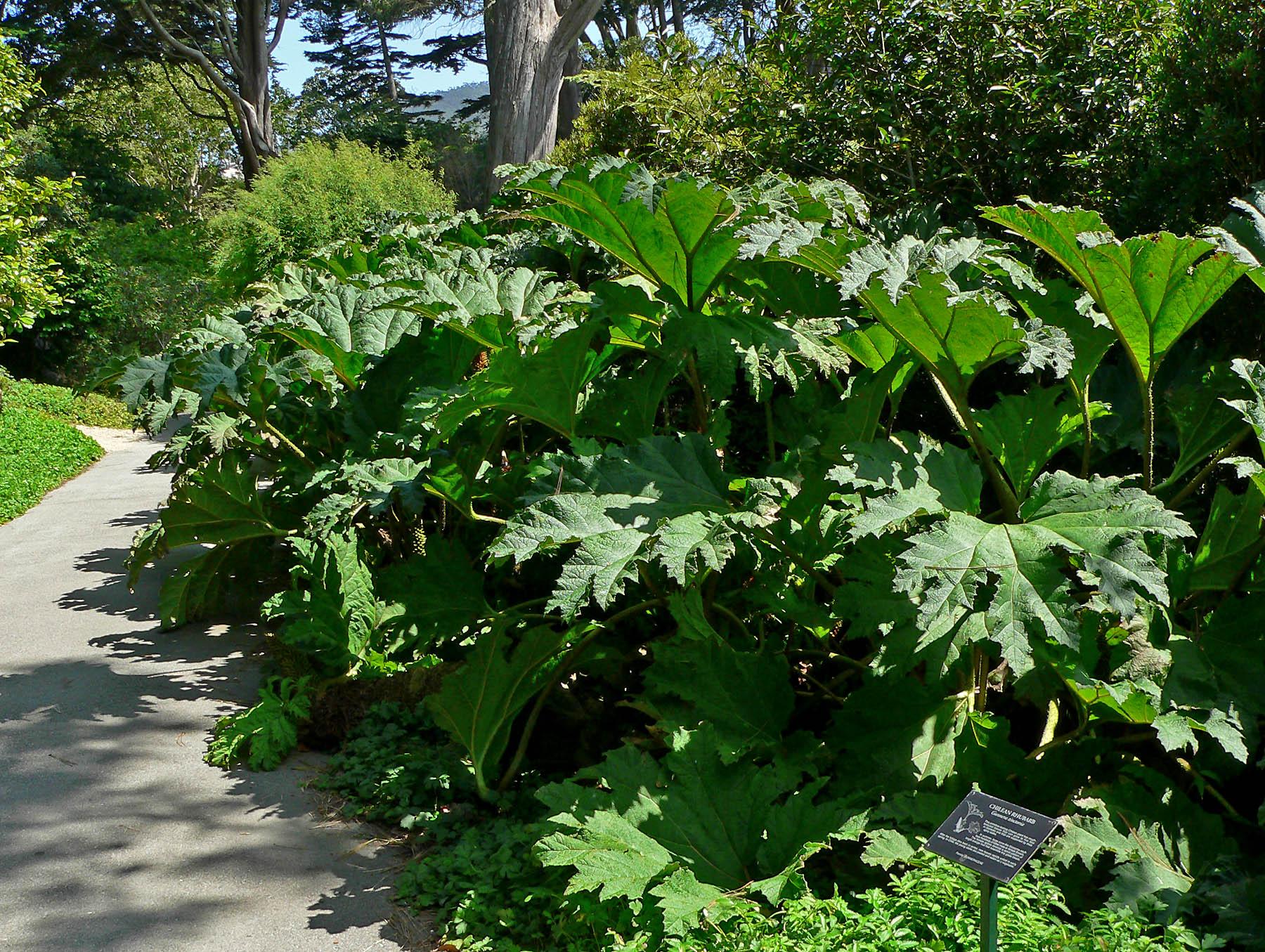 Photo of Gunnera tinctoria at the San Francisco Botanical Garden